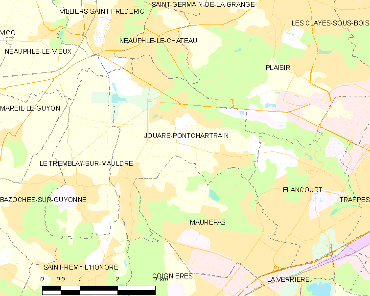 Map of French municipality Jouars-Pontchartrain